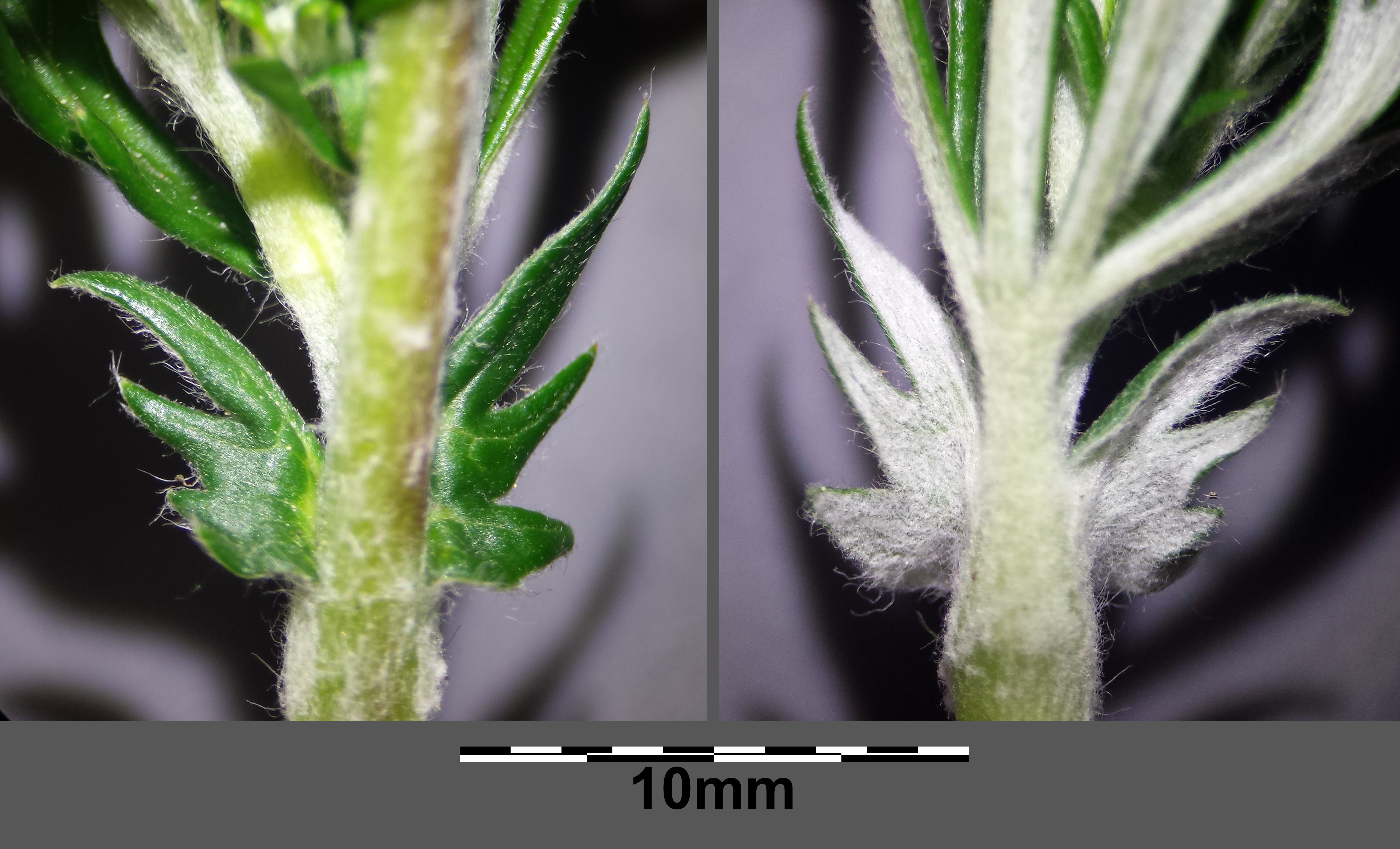 Stipules (top and bottom side) Taxonym: Potentilla argentea ss Fischer et al. EfÖLS 2008 ISBN 978-3-85474-187-9 Location: Siebeckstraße, Vienna-Donaustadt - ca. 160 m a.s.l. Habitat: ruderal meadows